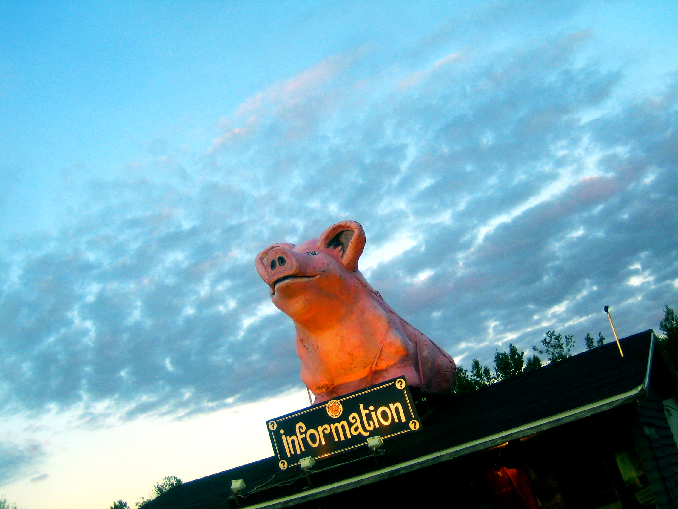 30th Festival du cochon ("Pig Festival") de Sainte-Perpétue, in Sainte-Perpétue, Québec, 4 August 2007.